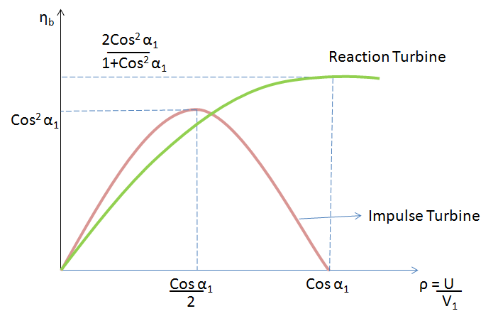 Comparing Efficiencies of Reaction and Impulse Steam Turbine